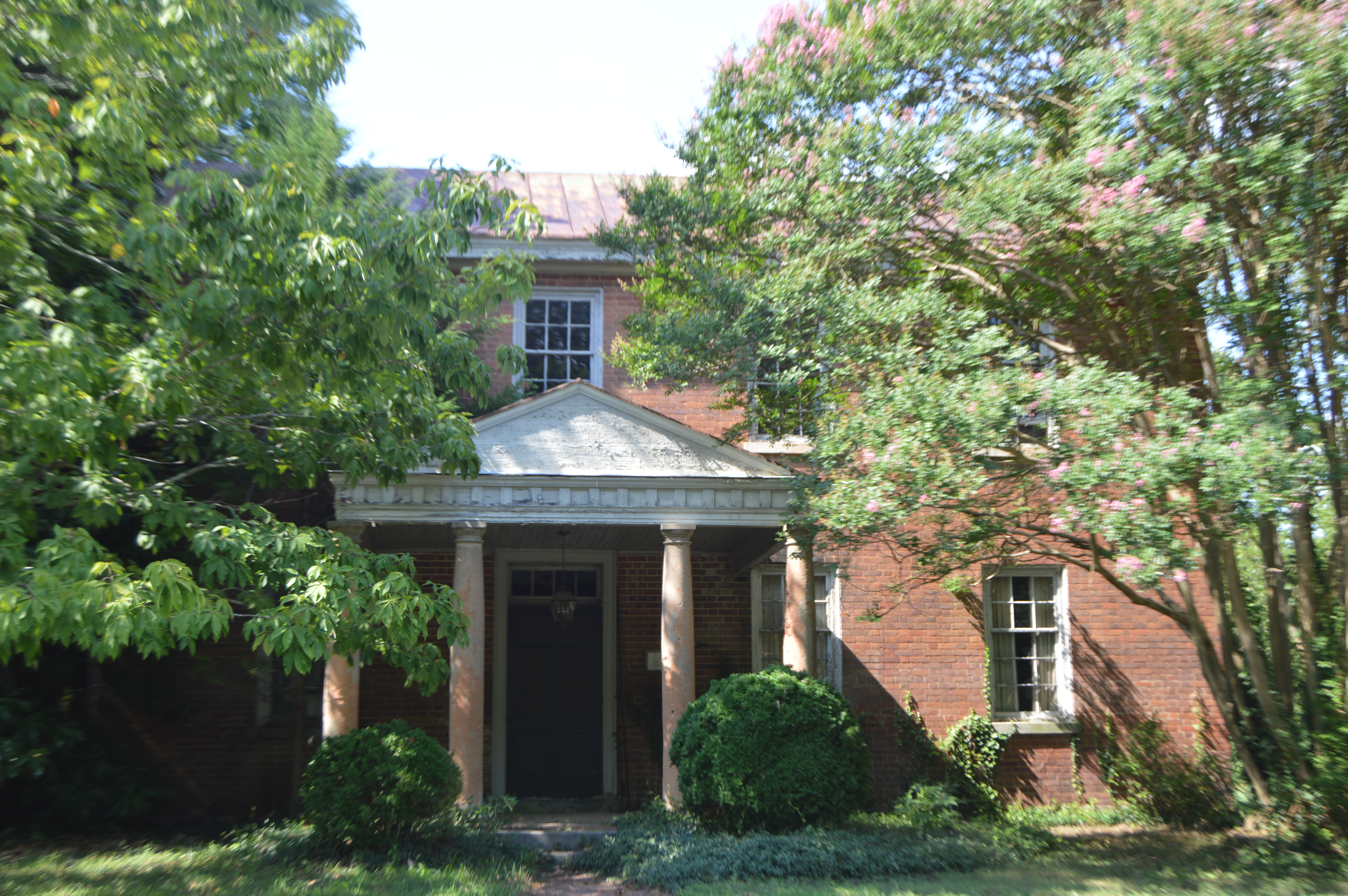 Front of Powell's Tavern, located on River Road east of Bearley Drive in eastern Goochland County, Virginia, United States. Built in 1808, it is listed on the National Register of Historic Places.